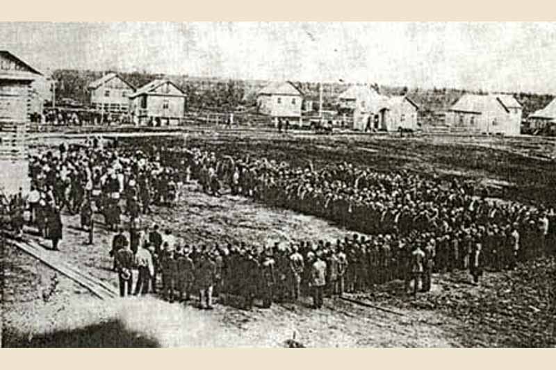 Yagrinlag. General view of the settlement of the Gulag in Molotovsk. Photos from the archives of V.A. Mitin